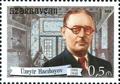 Stamps of Azerbaijan, 2014